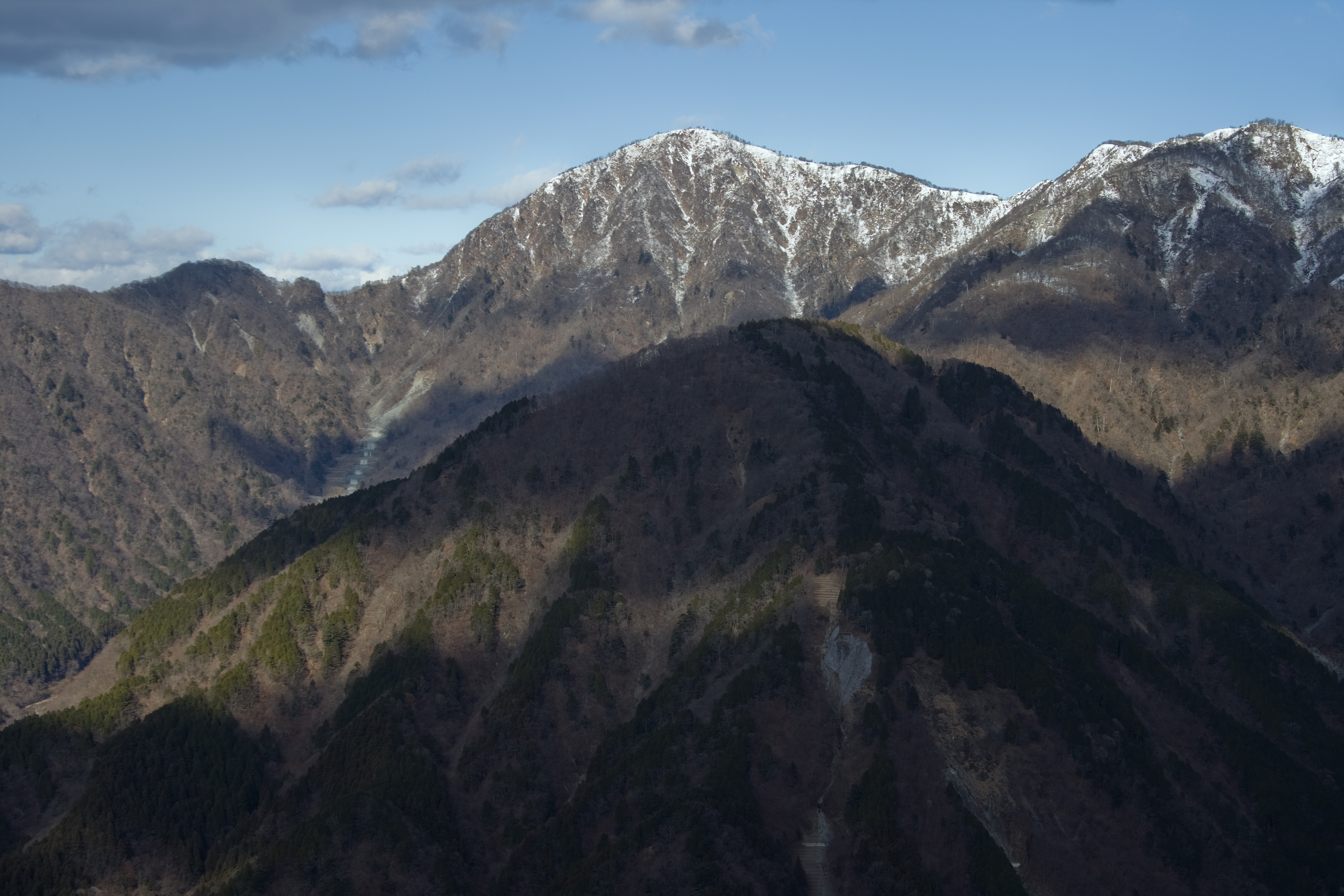 Hirugatake seen from the south. Taken from Nabewari Redge.